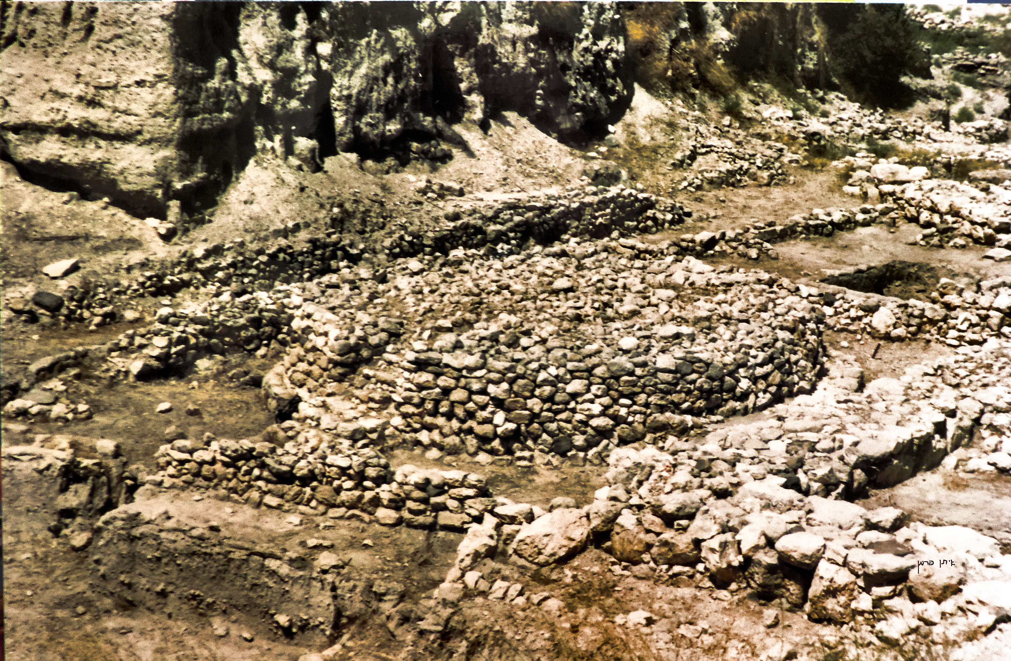 The bamah (high place) of Megiddo הבמה במגידו